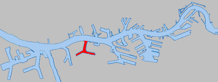 A map indicating the location of the above harbour in the Rotterdam harbour area.